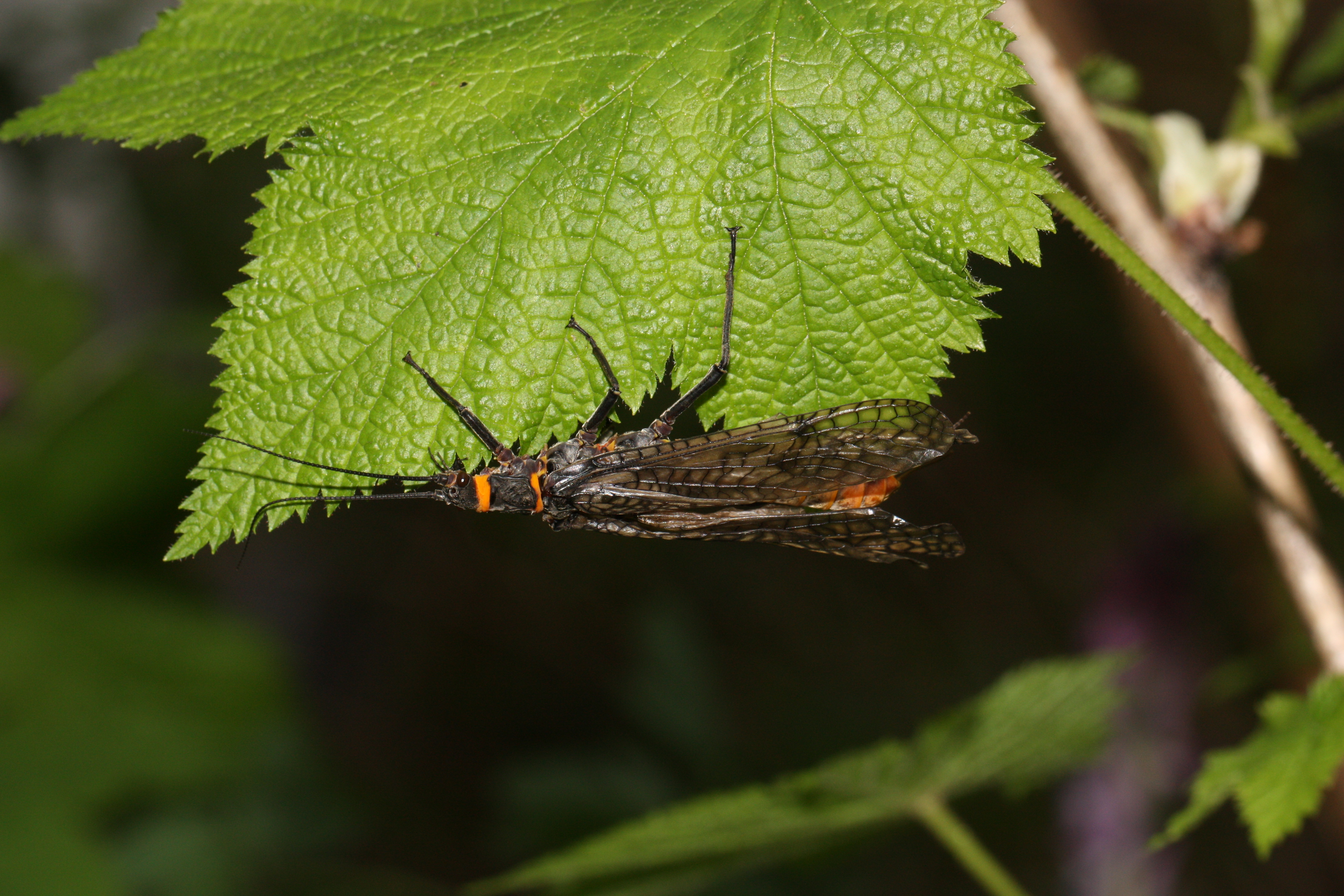 Salmonfly on Thimbleberry (Rubus parviflorus)